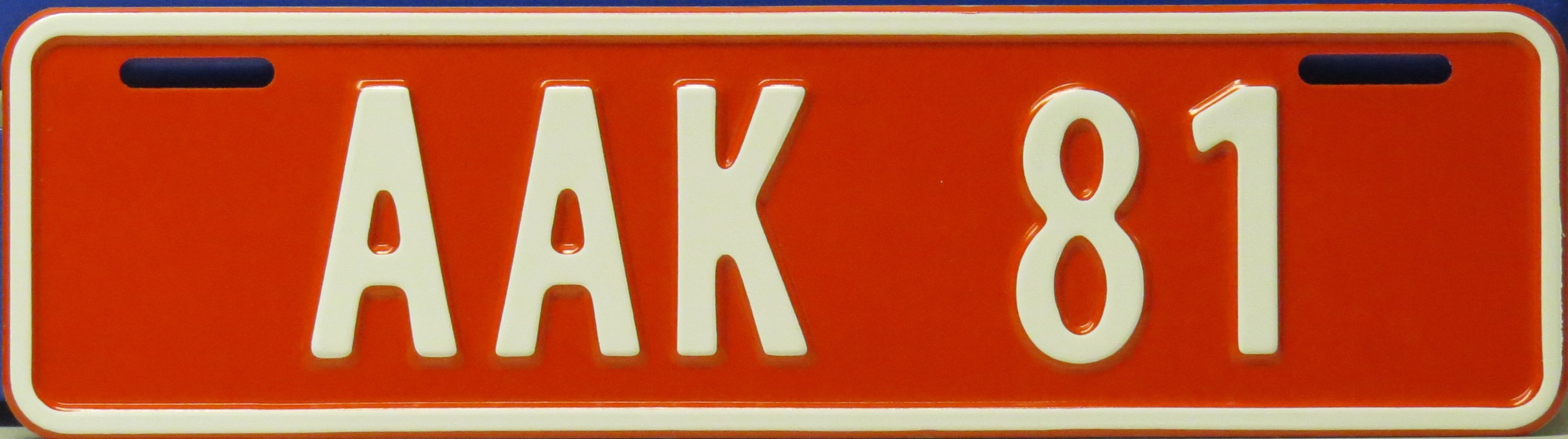 Trade plate from Norway. Introduced june 2015